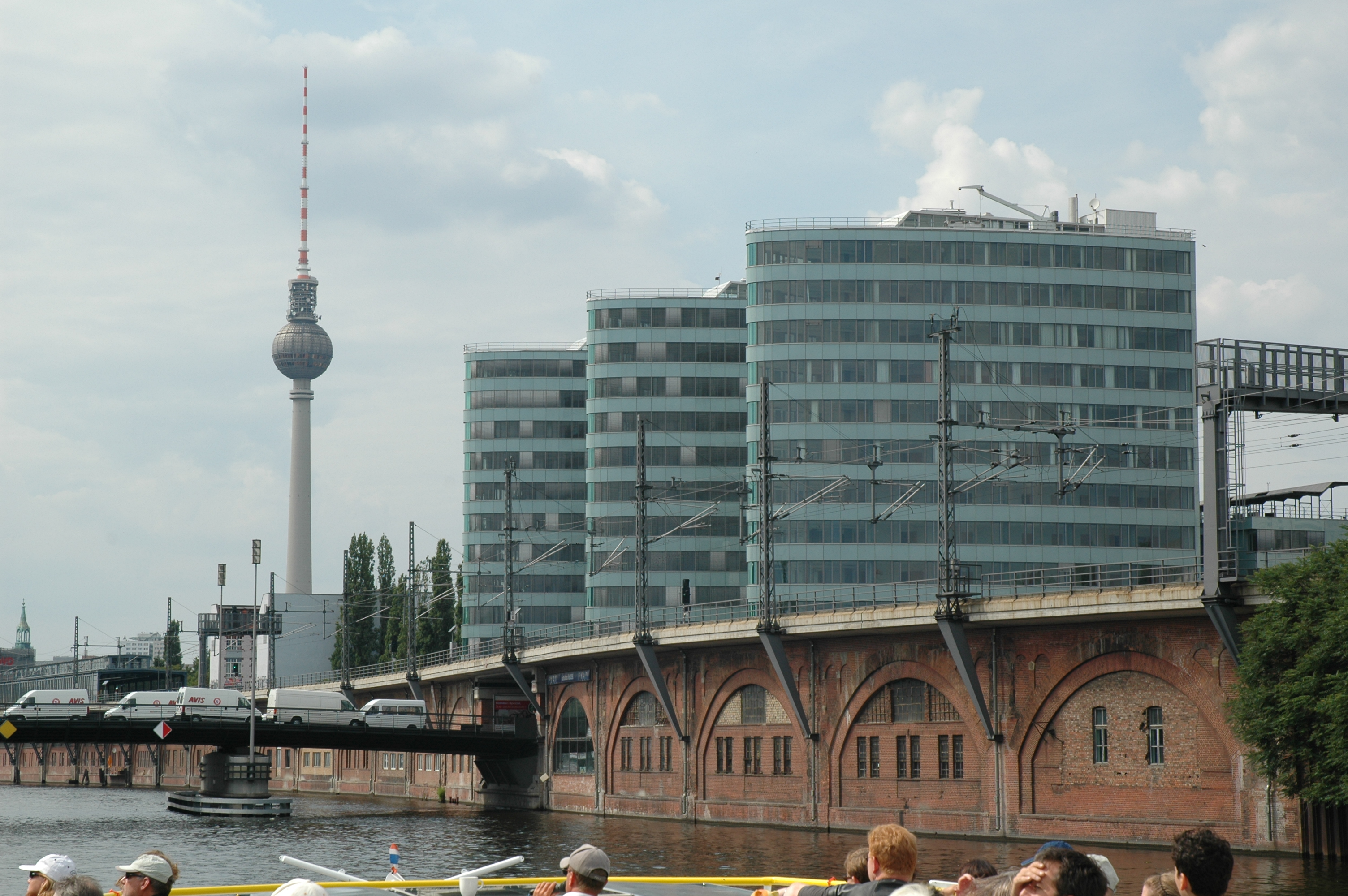 Trias building at Spree, Berlin. Architects: Beringer & Wawrik, Munich.